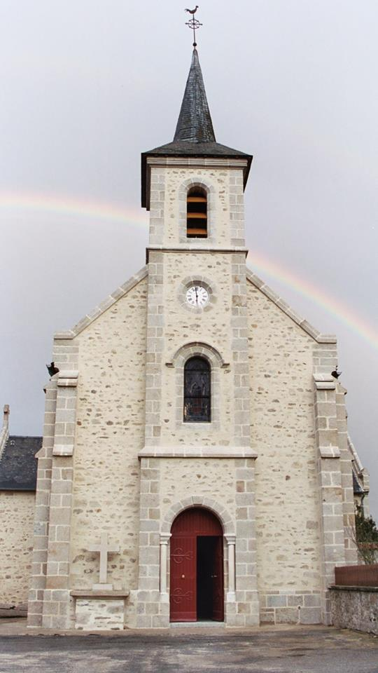 L Eglise de Saint Junien Les Combes